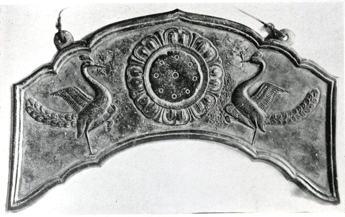 Buddhist ritual gong with peacock relief, Cast bronze gilt, Pair of peacock motif on both sides. 1250-01-01 Date incised: January 1, 1250. Kamakura period, 32.5cm wide. Chūson-ji, Hiraizumi, Iwate、Japan